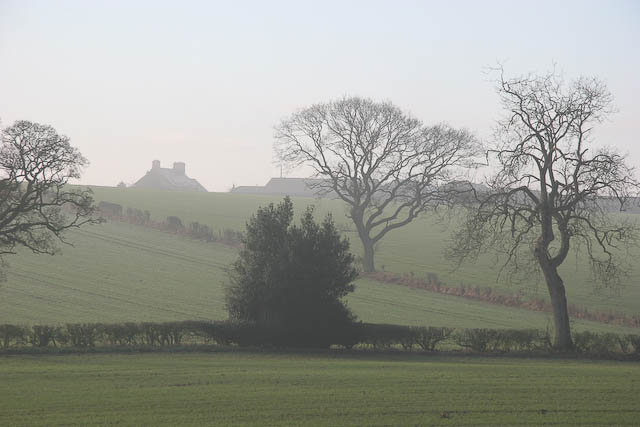 Brandrith farm from The Arboretum